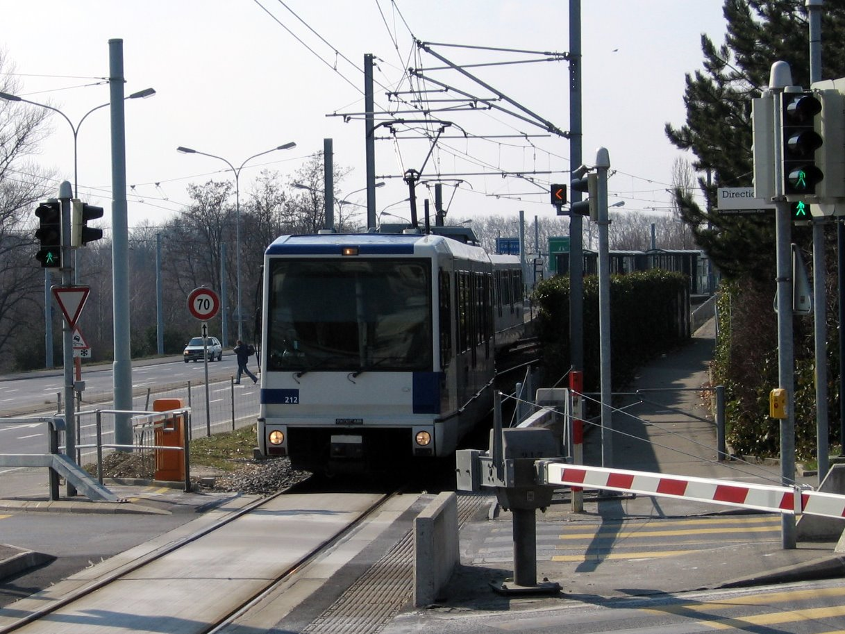 Lausanne M1 is a light metro line with one track except most stations, connecting the universities with the city centre and another main line railway station at Renens.